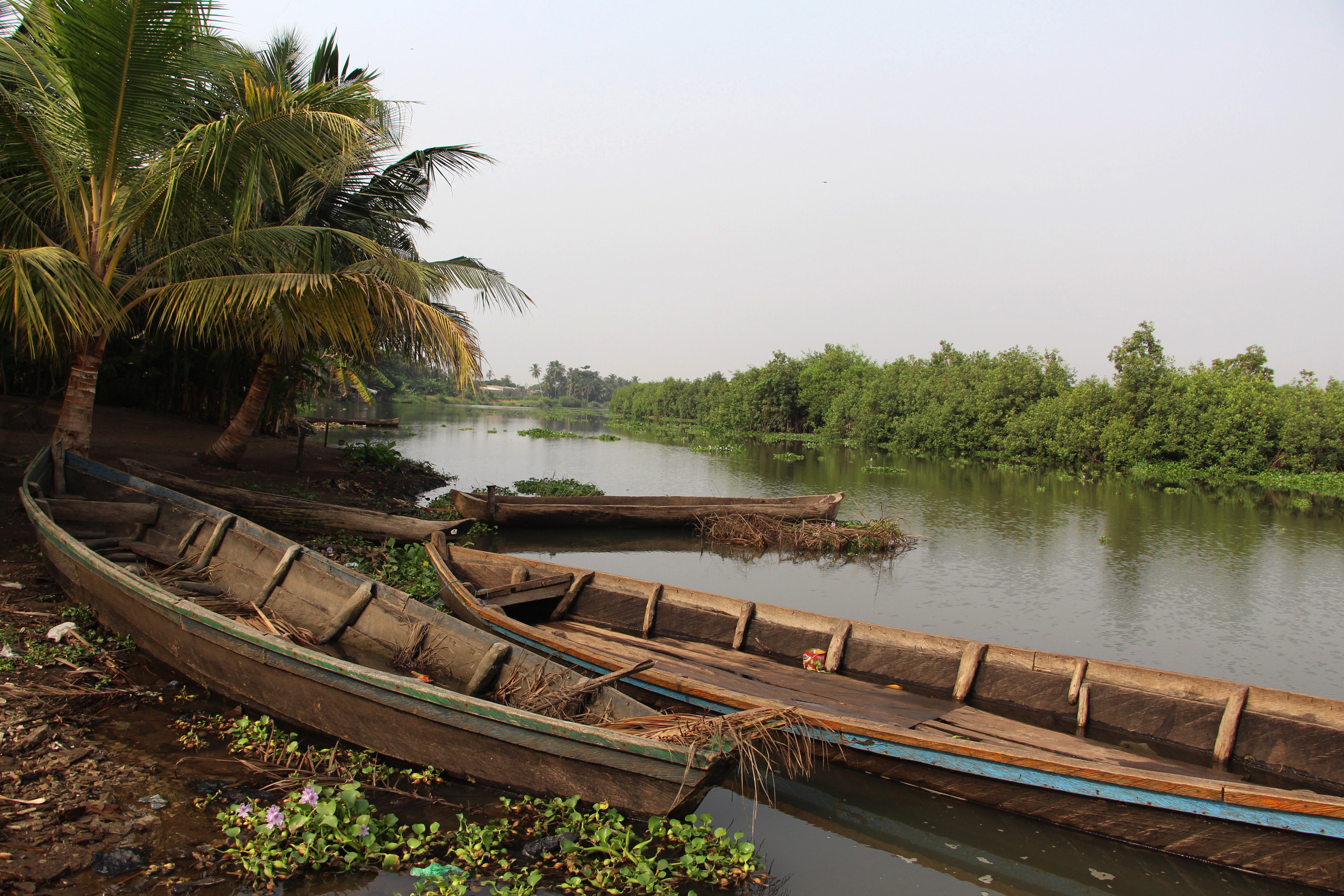 a resting place for lovers a This is an image with the theme "Africa on the Move or Transport" from: Benin